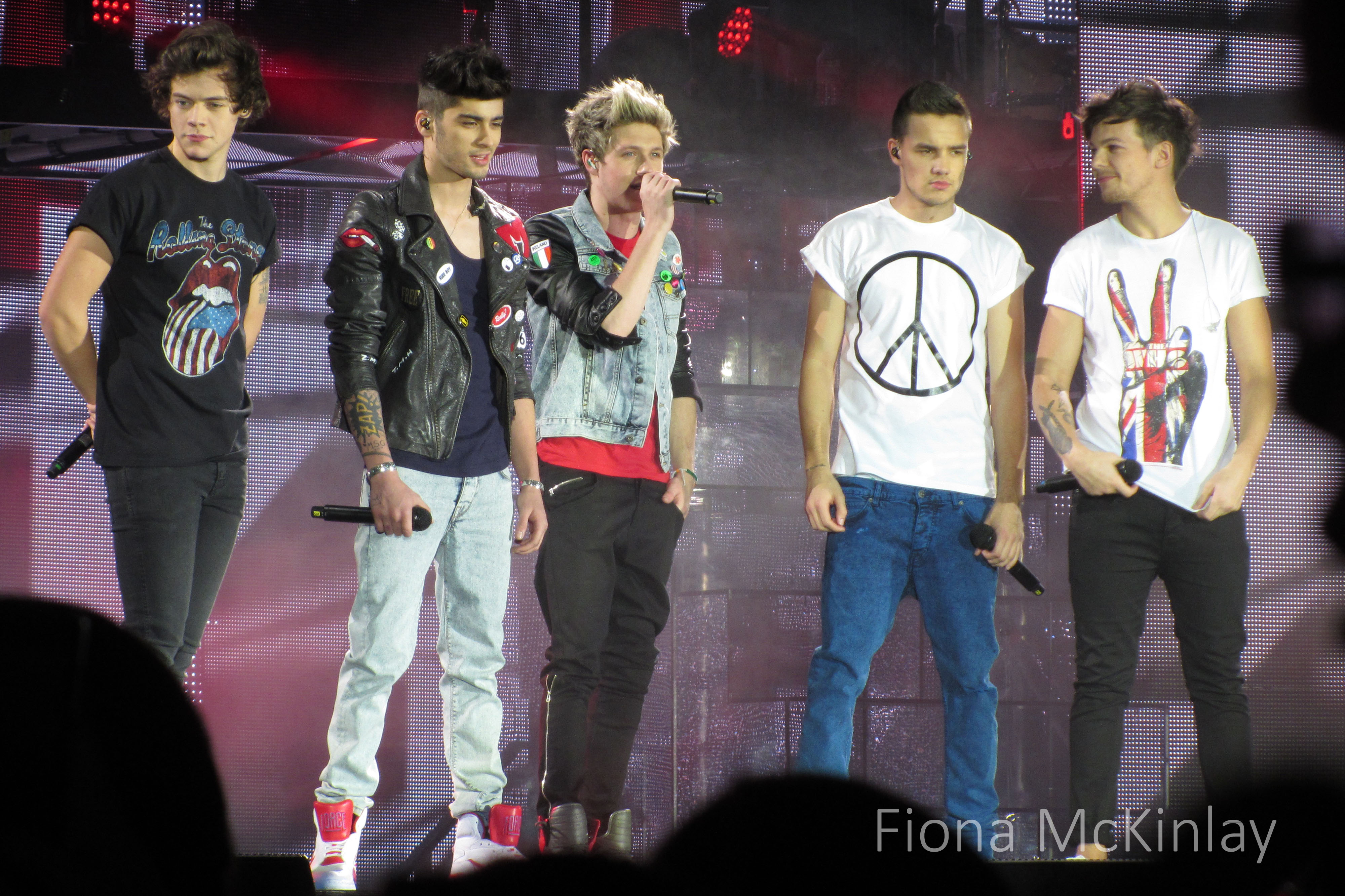 One Direction, Scottish Exhibition and Conference Centre (SECC),, Glasgow, Wednesday 27 February 2013, Take Me Home Tour